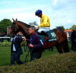 Sea the Stars, with jockey Mick Kinane